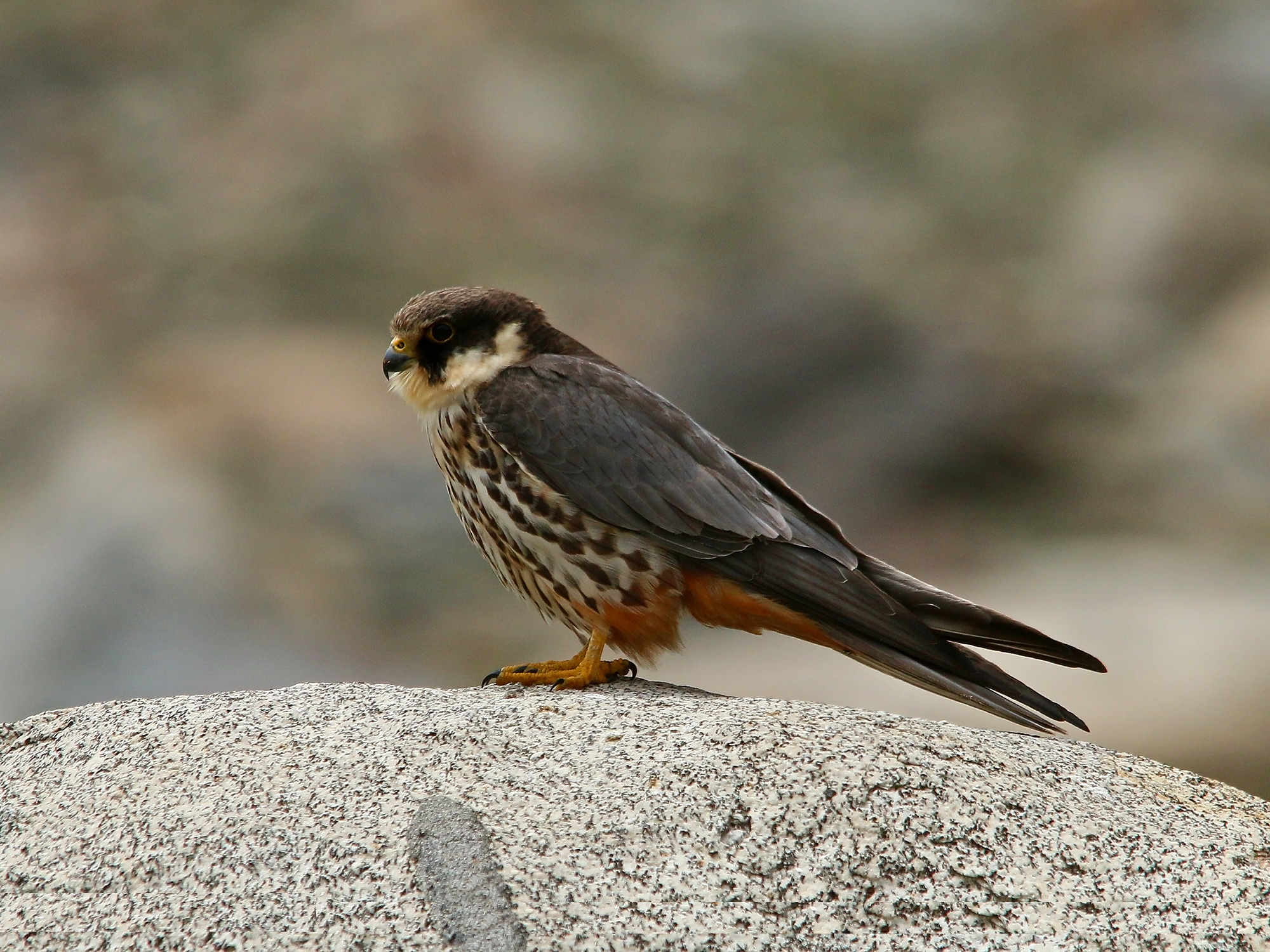 Eurasian Hobby (Falco subbuteo) captured at Borit, Gojal, Gilgit-Baltistan, Pakistan with Canon EOS 70D